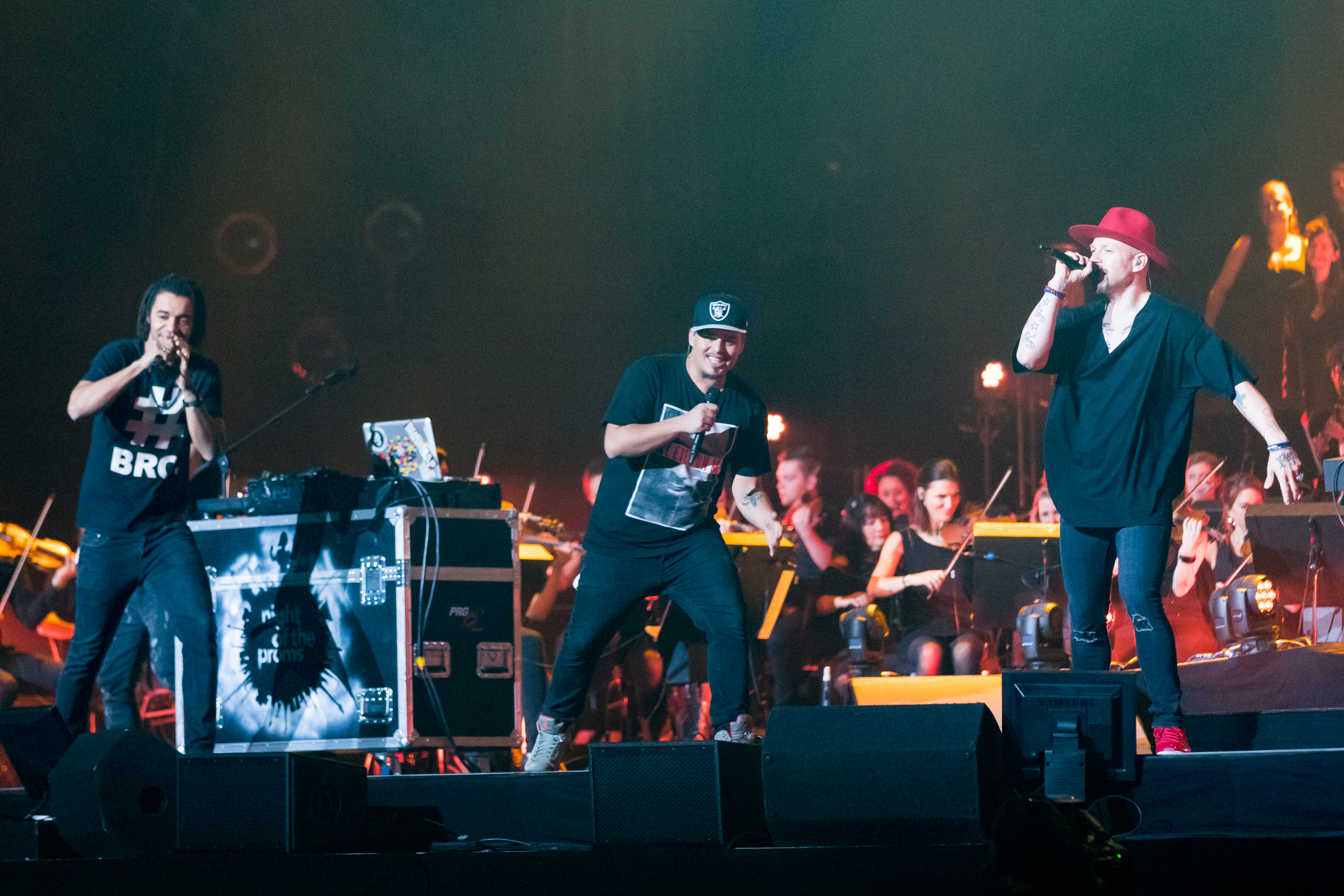 Culcha Candela during Night of the Proms at SAP Arena, Mannheim, Baden-Württemberg, Germany on 2017-12-22, Photo: Sven Mandel